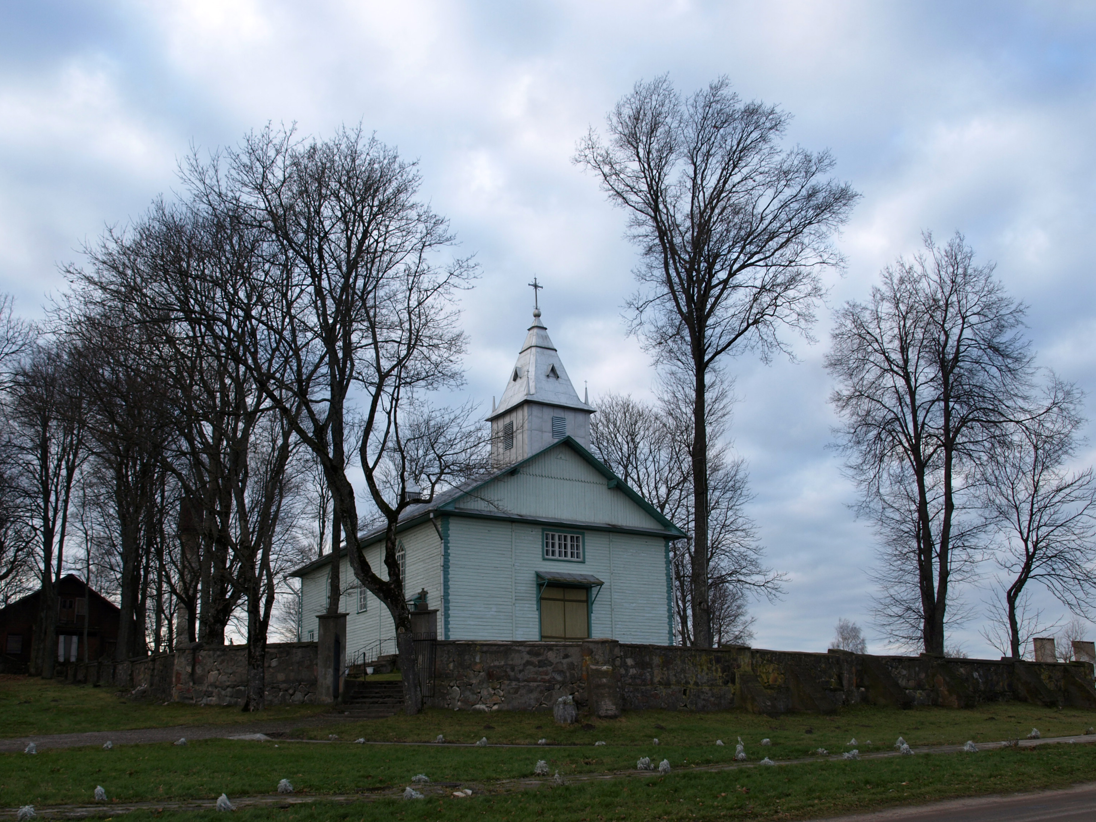 Beižionys church, Elektrėnai minicipality